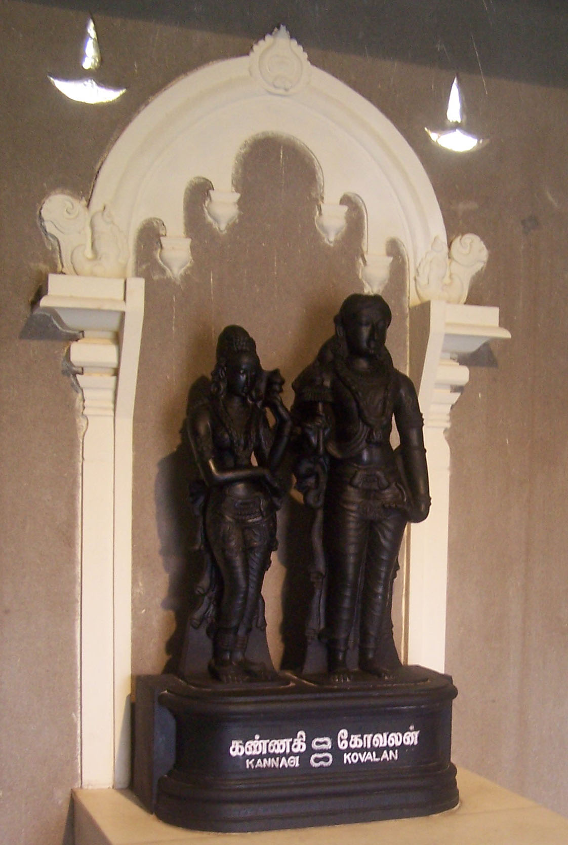 Sculpture of Kannagi & Kovalan in Poompuhar [Puhar] - TamilNadu - India